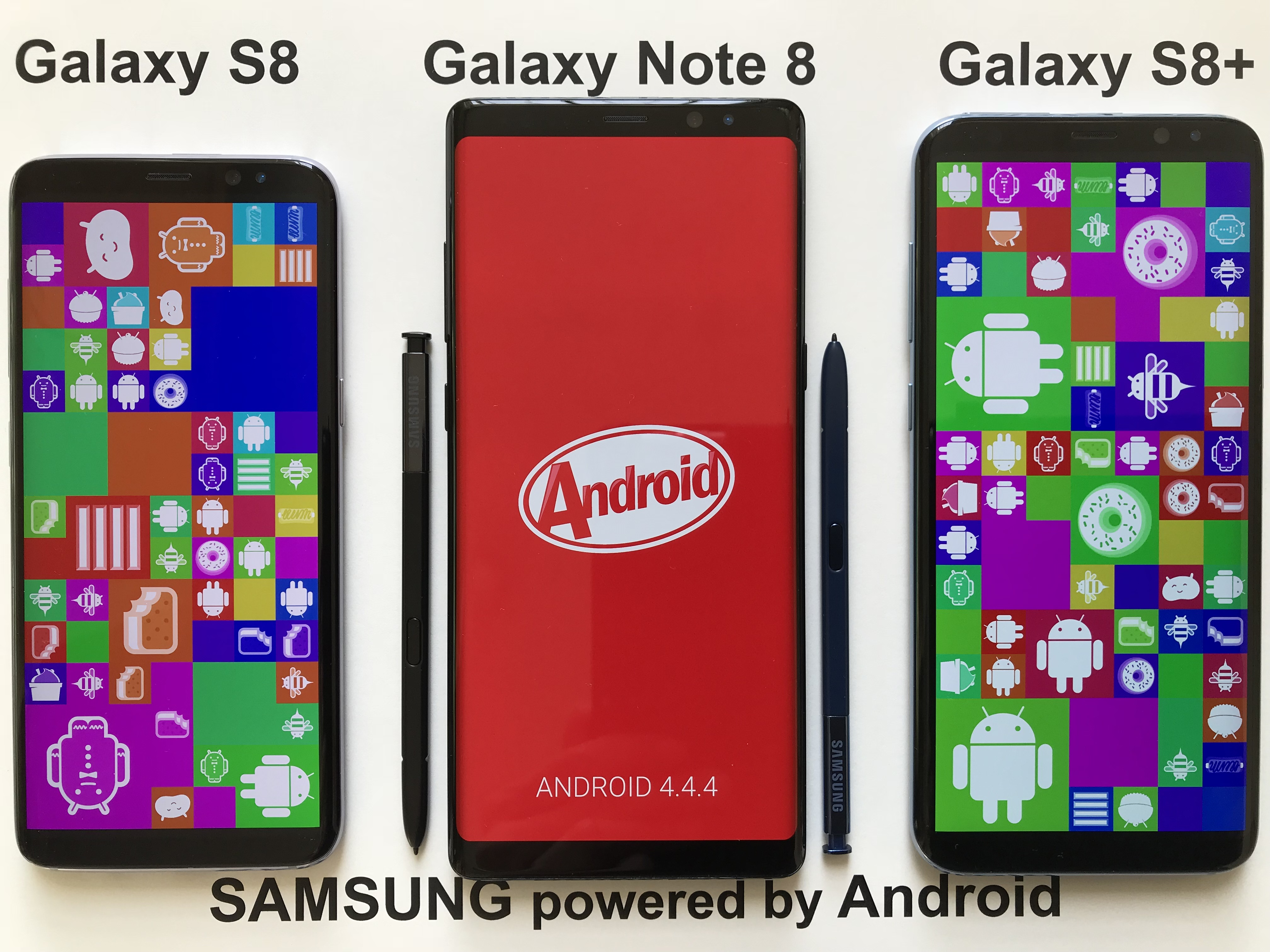 Android 4.4 KitKat